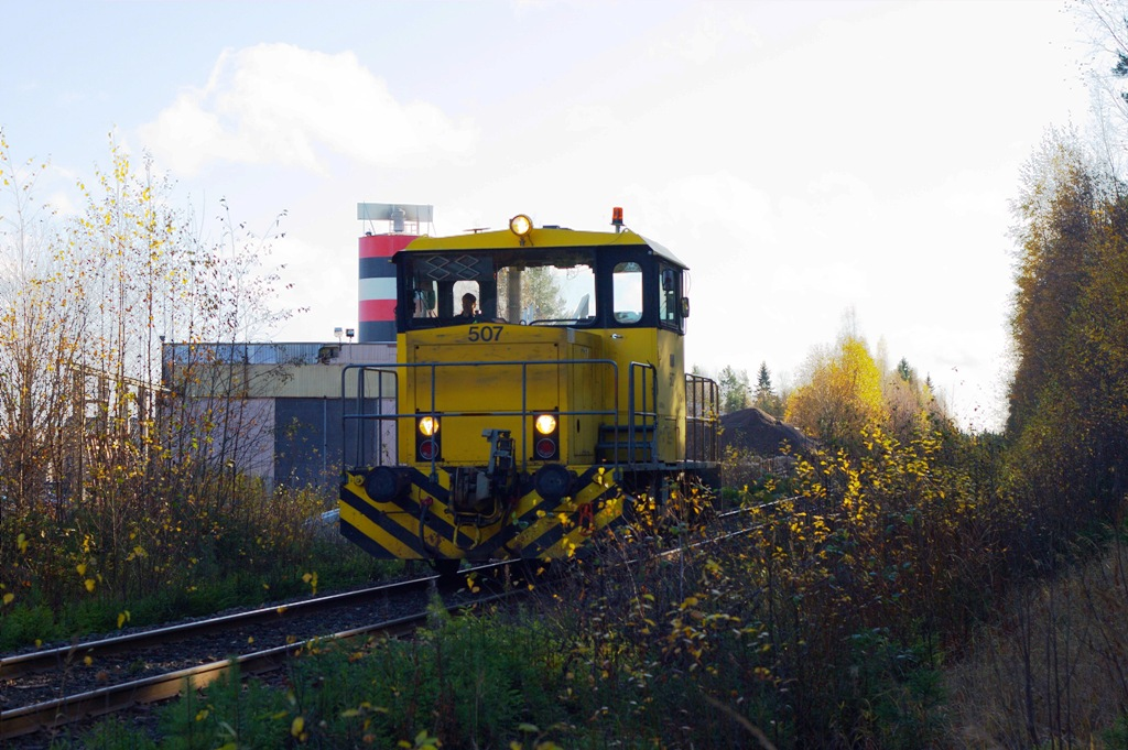 Tve4 diesel locomotive (no. 507) returns to Kommila from the maintenance